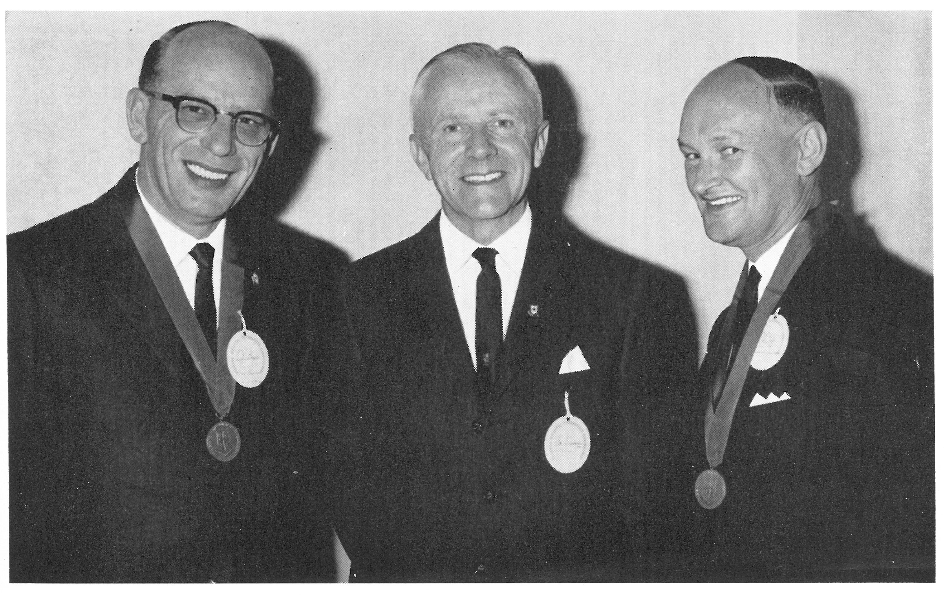 Bill Hayes and Lance Jeffs receive their Evans Medal for Merit from Ronald Davies, director of Evans Medical (Australia). This photo was published in the Australian Journal of Hospital Pharmacy in January 1966. From L-R: S. Willam (Bill) Hayes, G. Ronald Davies, P. Lance Jeffs.